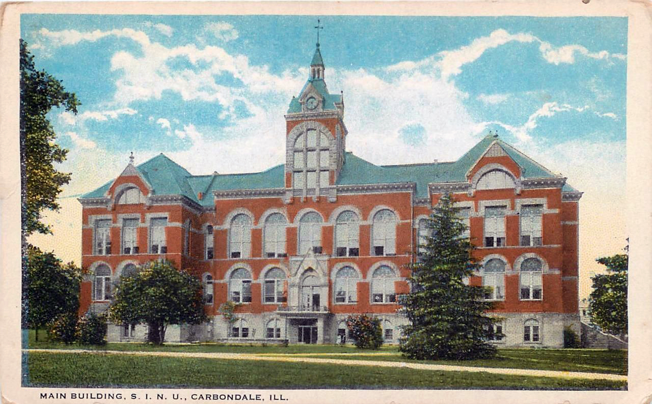 Old Main, Southern Illinois University, Carbondale (USA). Old postcard, ca. 1910. Built 1887, burned 1969.